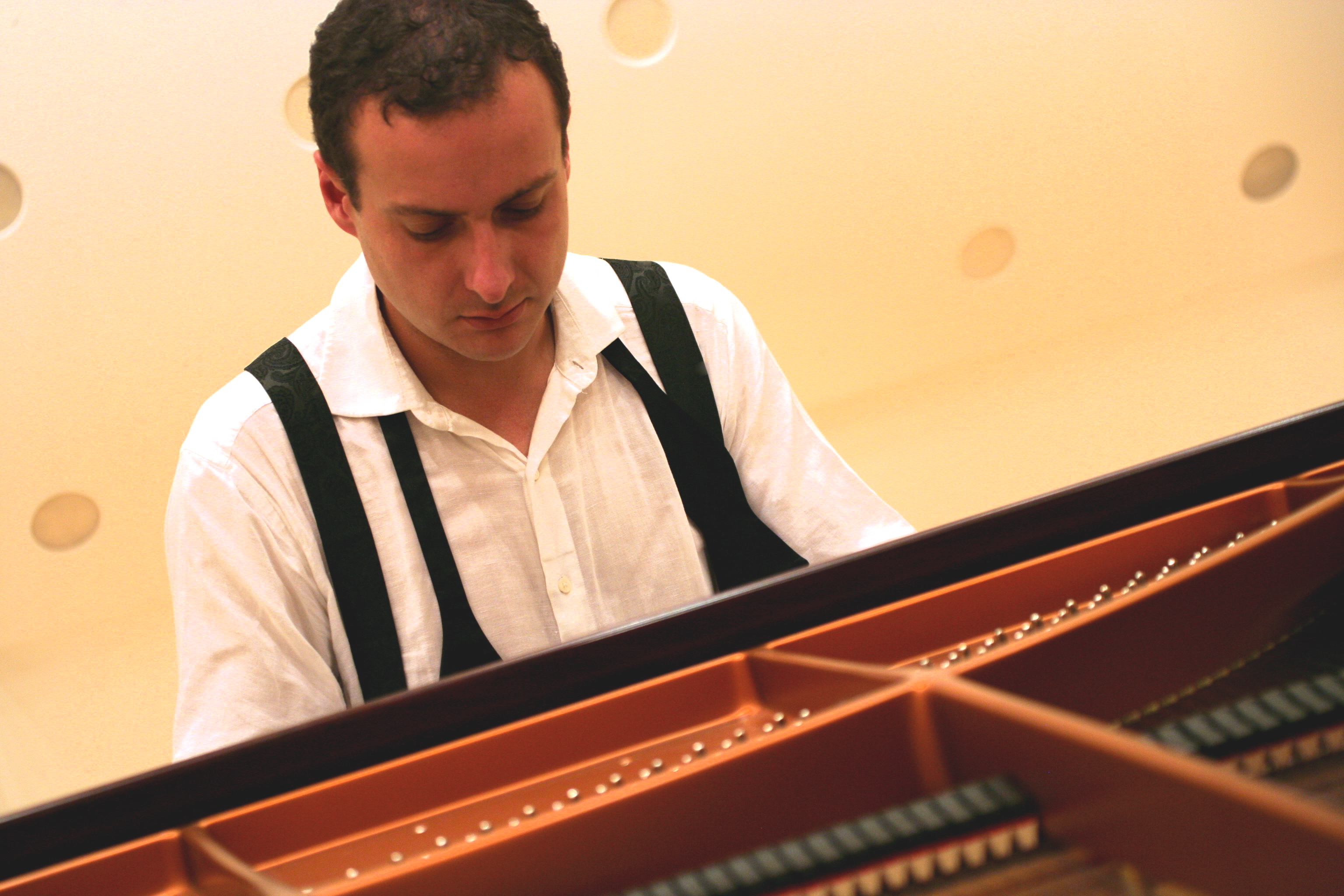 This is a free public domain picture taken by myself of Mark Gasser at a recording session in Newcastle in March 2007. The Piano is a Stuart and Sons and it was taken at the Stuart and Sons Factory / Recording Studio.